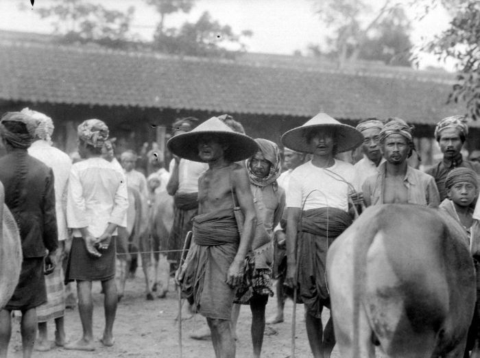 Drivers at the cattle market at Masbagik